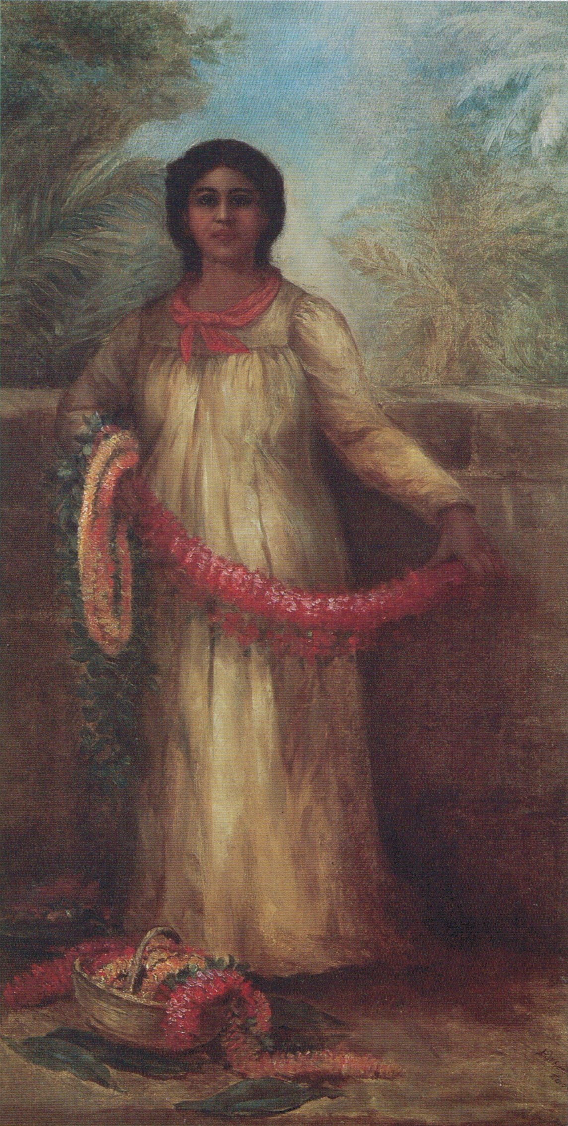 Flower Lei Seller, oil on canvas painting by Bessie Wheeler, c. 1900